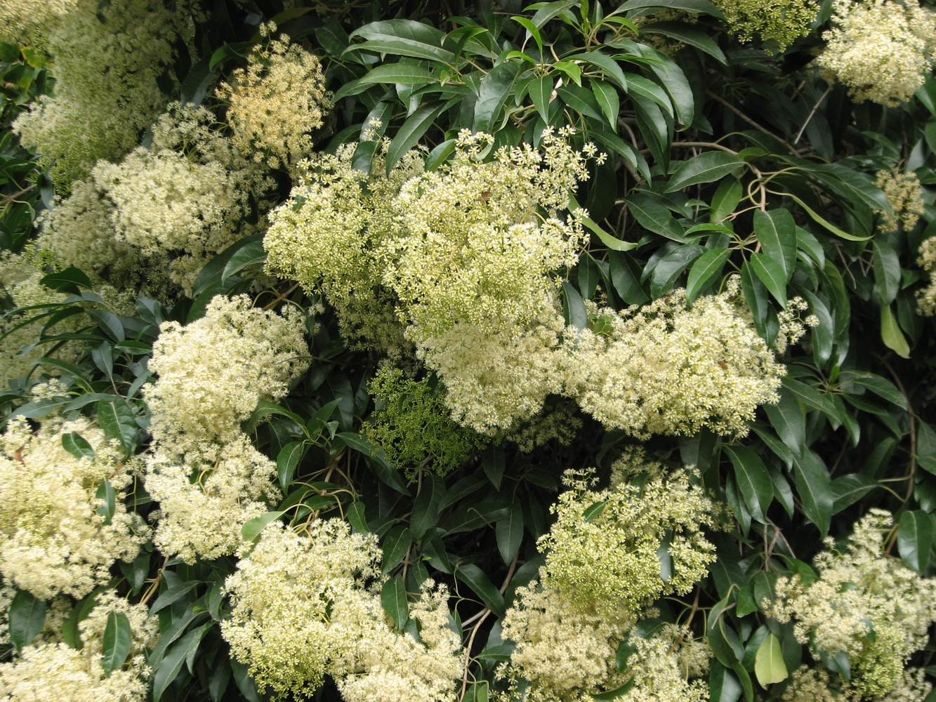 Nuxia floribunda (cultivated, labelled), Royal Botanic Gardens Melbourne, Australia